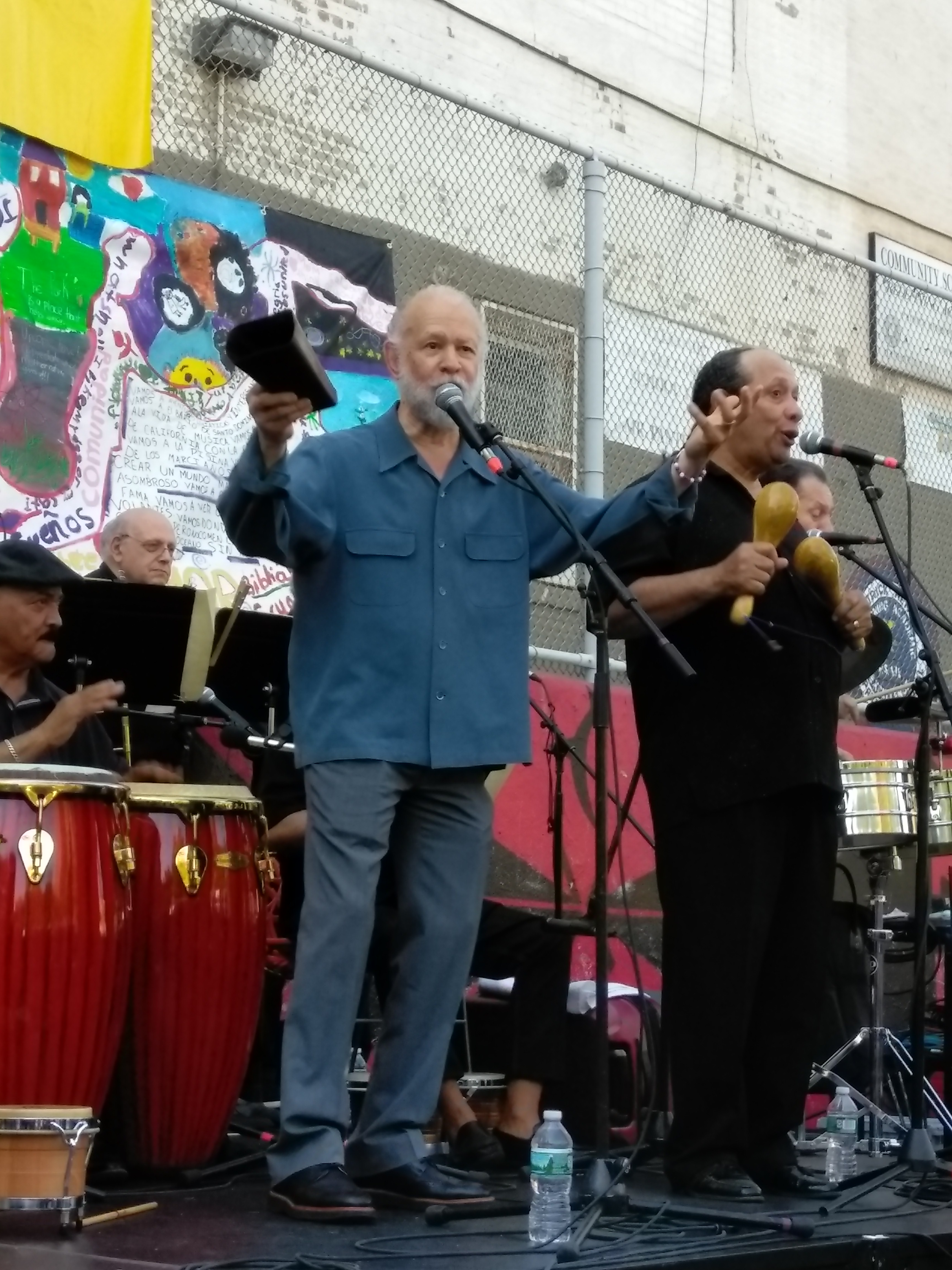 photo by Linda Fletcher